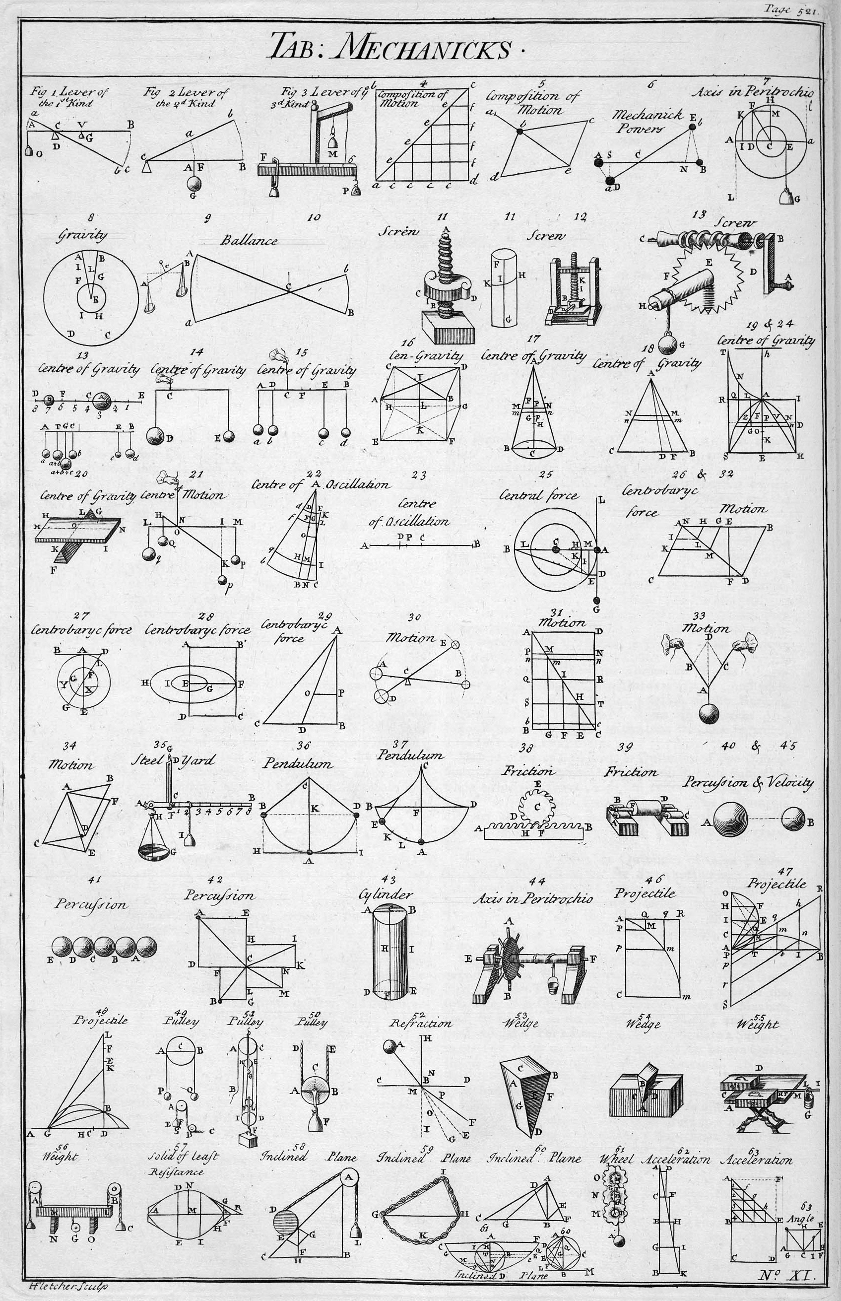 Table of Mechanicks, from Ephraim Chambers (1728) Cyclopaedia, A Useful Dictionary of Arts and Sciences, Vol. 2, London, p.528, Plate 11.